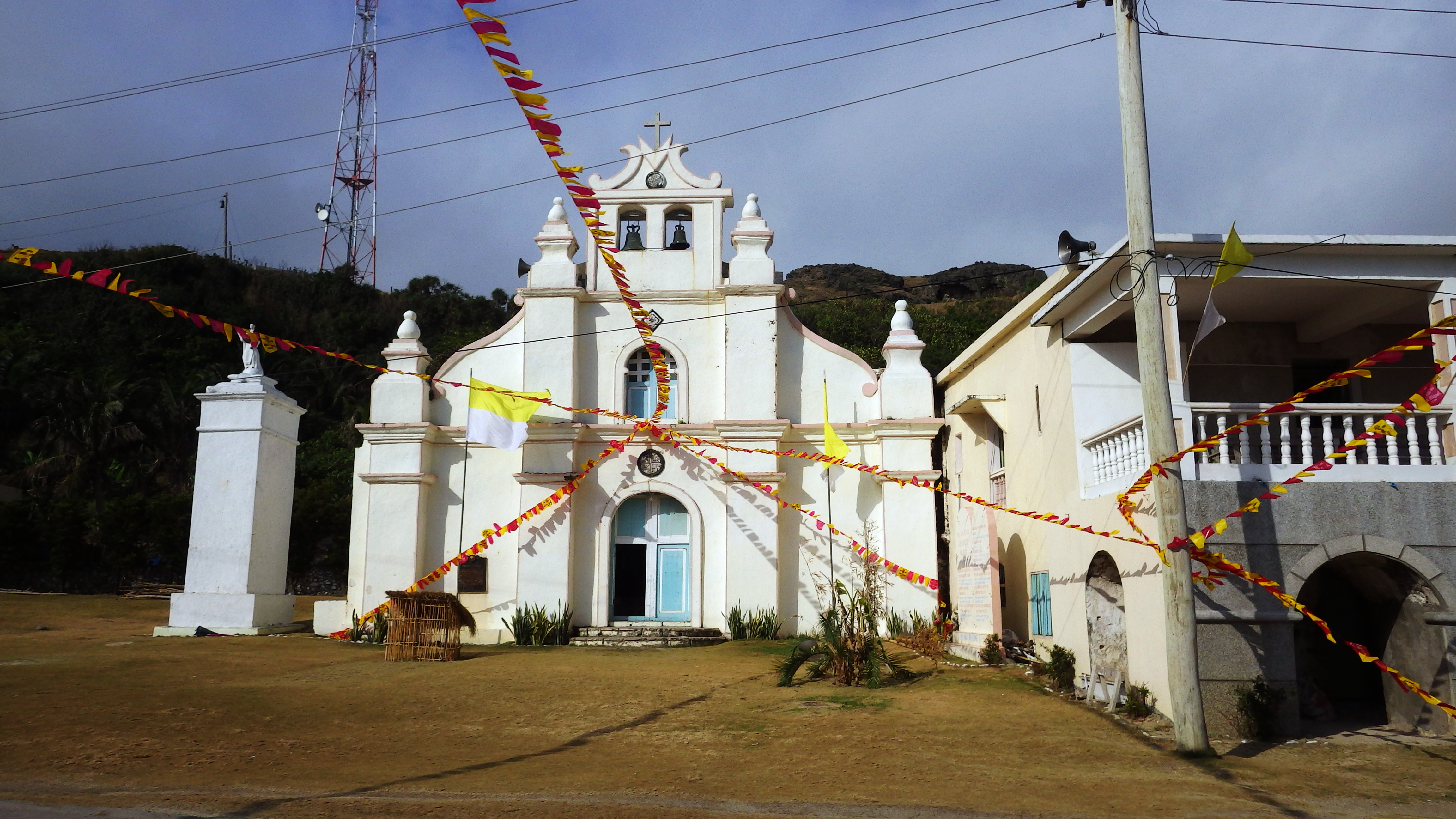 San Vicente de Ferrer Church